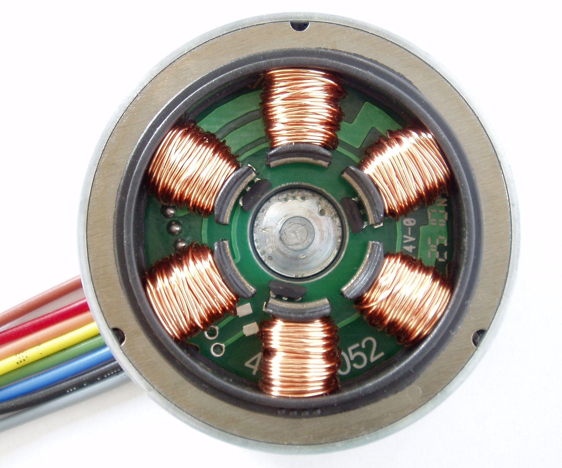 Stator winding of a Brushless DC electric motor (Micronel U65MX)